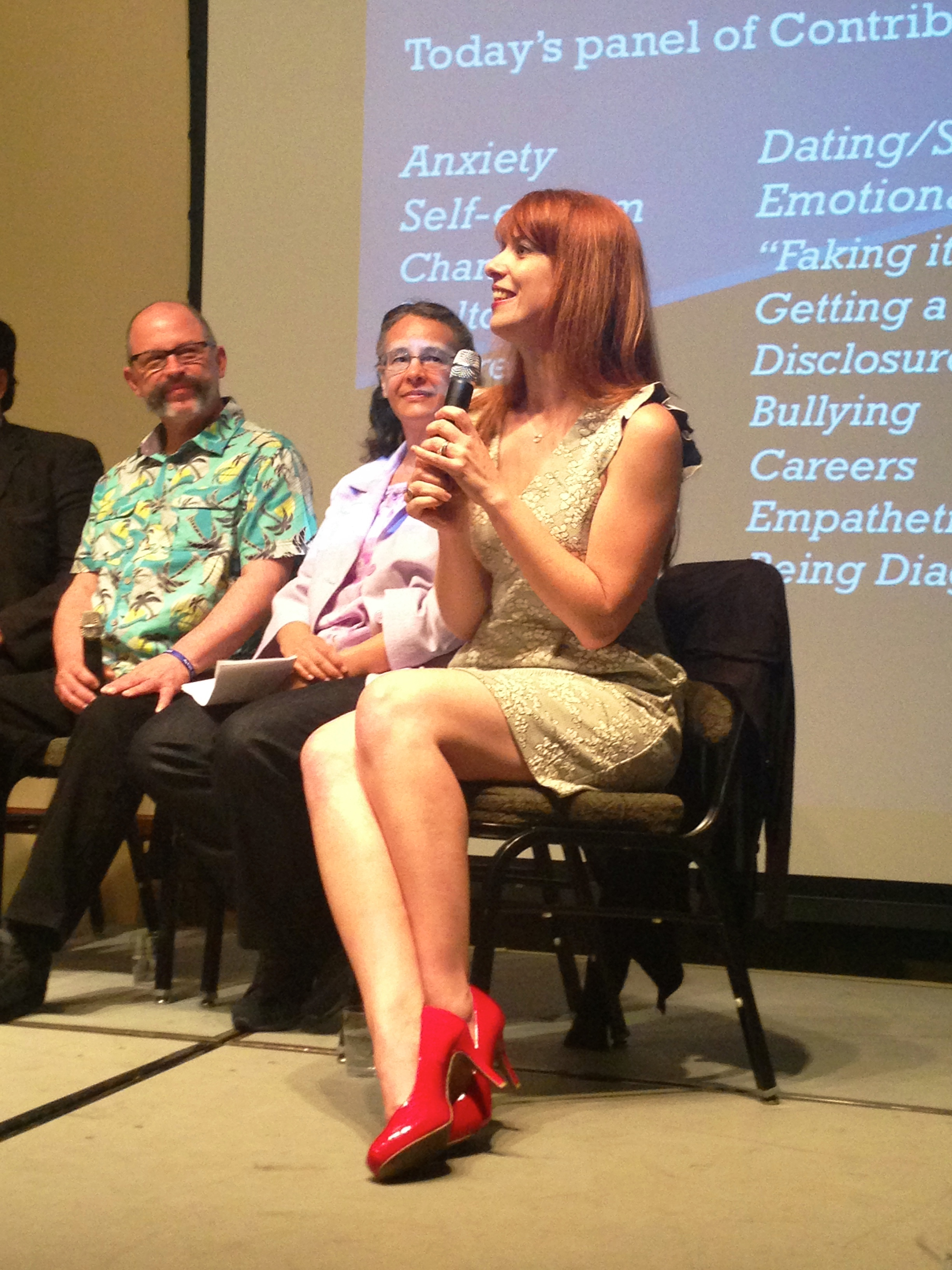 At Dr. Tony Atwood's "World's Top Aspie Mentor's Conference," 2014.